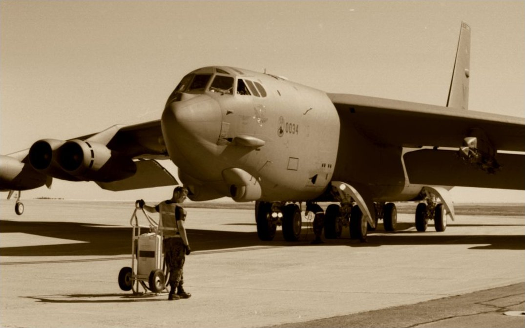 B-52H on the flightline at Minot Air Force Base, North Dakota (July 2005). Photo by Peter Rimar.